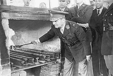 General Savio lights the Zapla blast furnace during its inauguration on October 11, 1945.